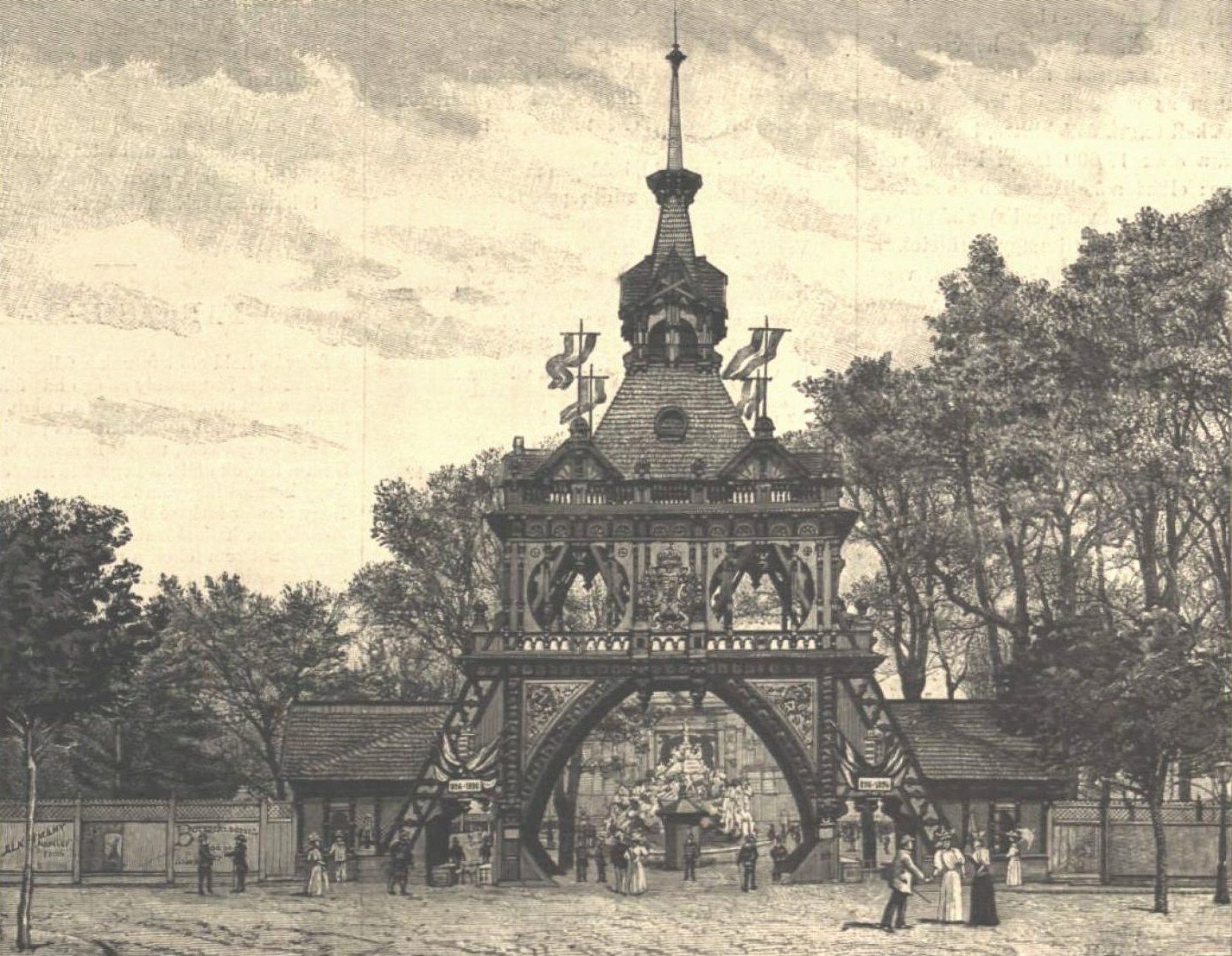 Millennial exhimbition in Budapest, Main gate no. 2.